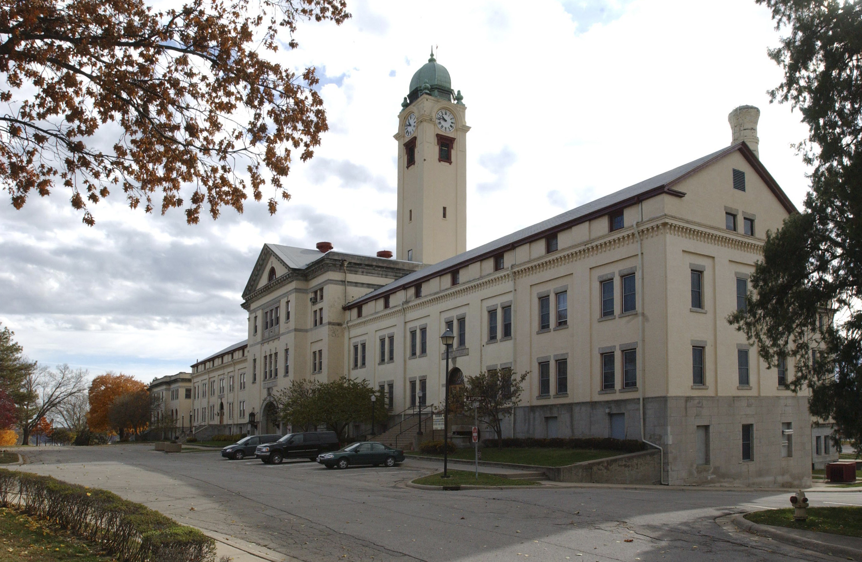 Grant Hall located at 415 Sherman Avenue, Fort Leavenworth, Kansas, home of the United States Army Combined Arms Center Headquarters.